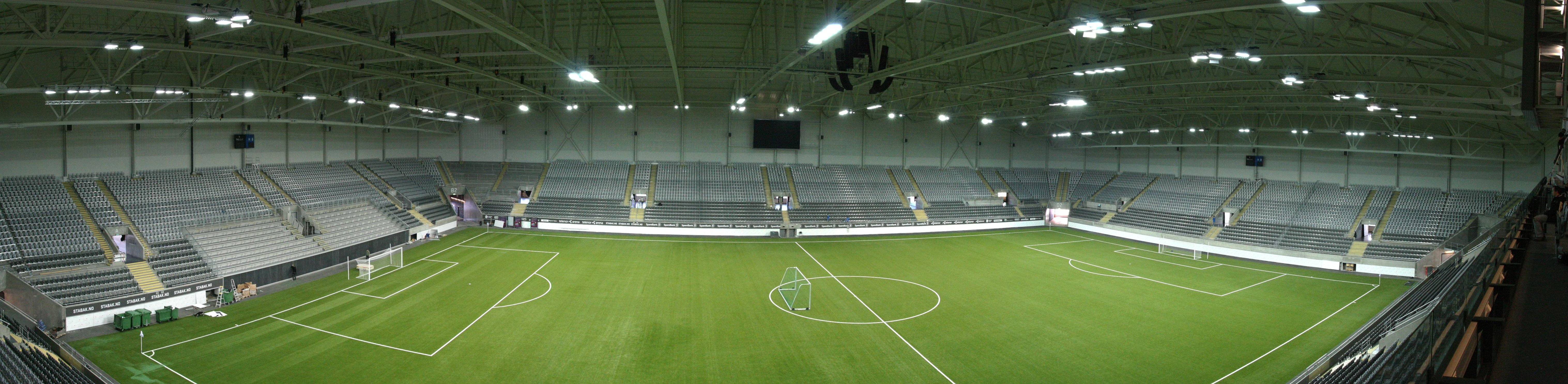 Telenor Arena panorama.